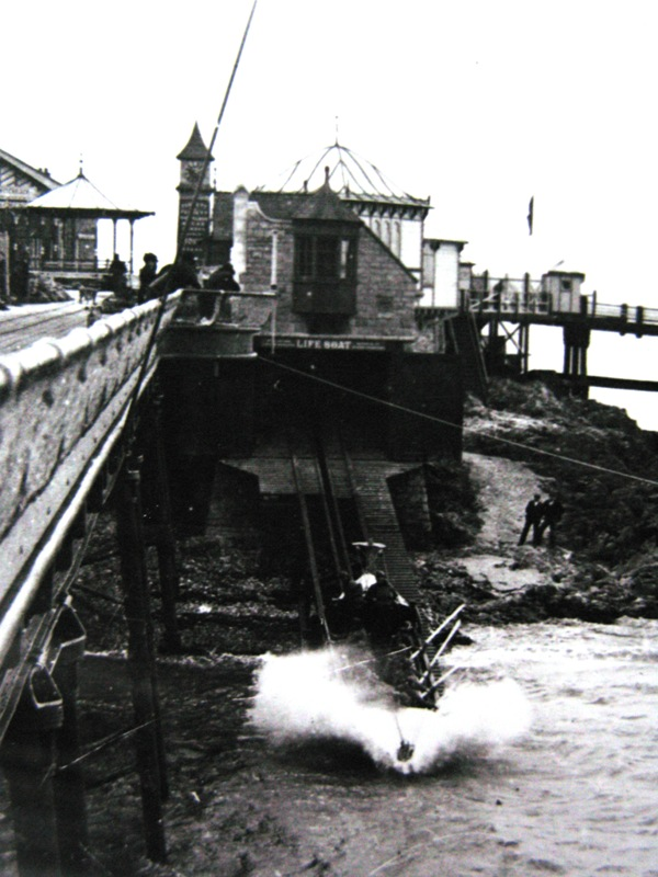 The lifeboat William James Holt of 1889 being launched from its boathouse on the Old Pier at Weston-super-Mare, Somerset, England.